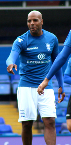 King photo vs Antwerp